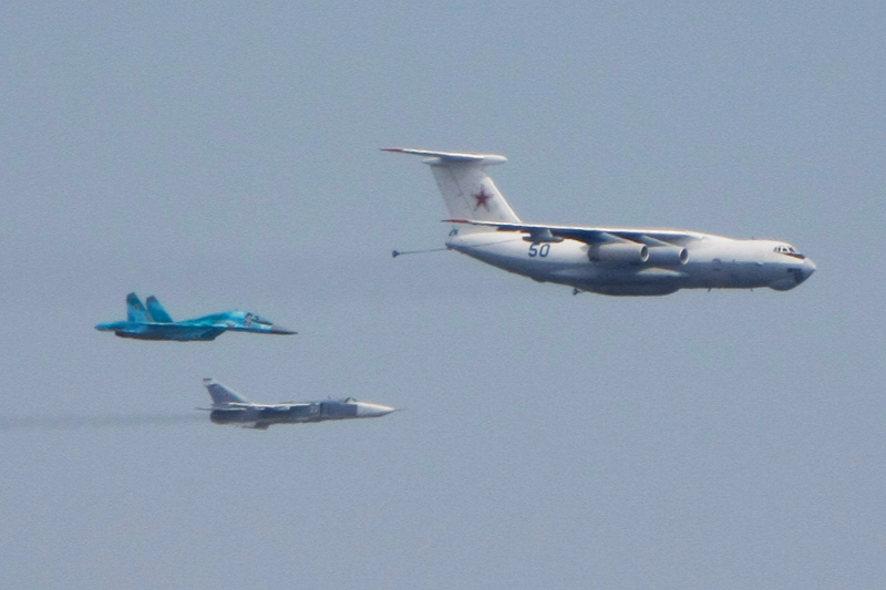 Su-34, Su-24 and an Il-76 Midas. 9 May celebration.